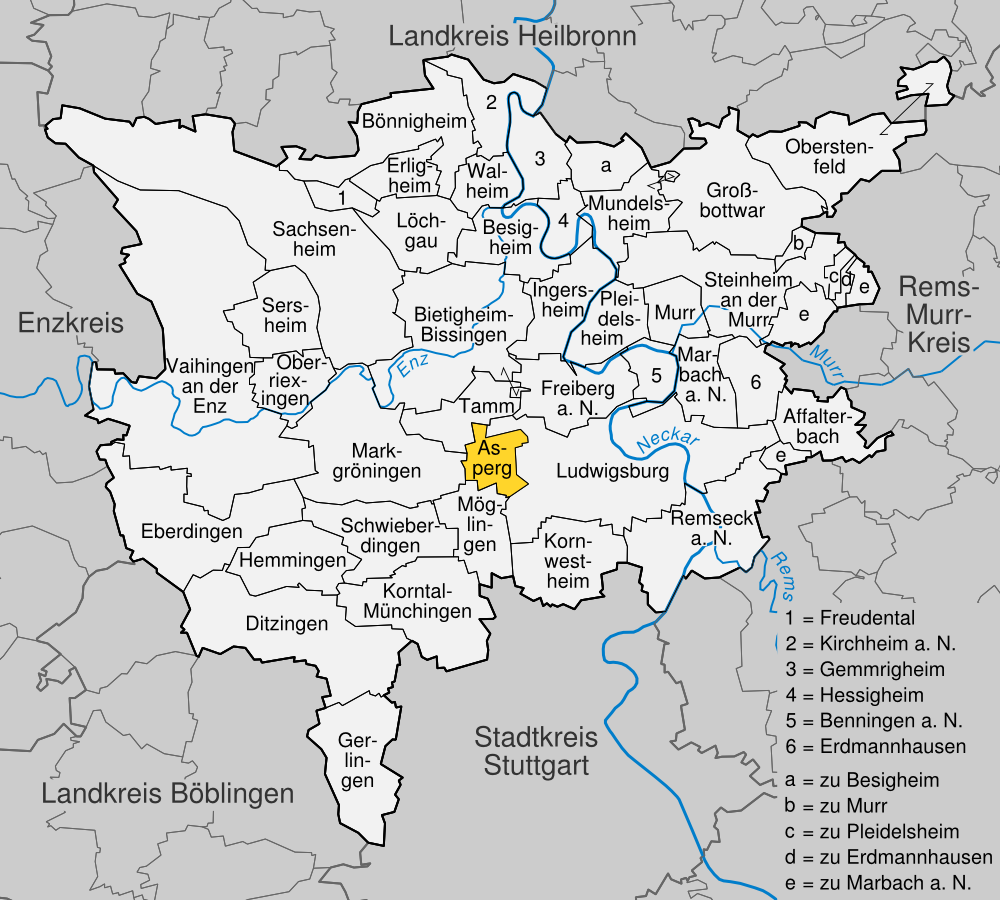 position of Asperg within distict of Ludwigsburg, Baden-Württemberg, Germany